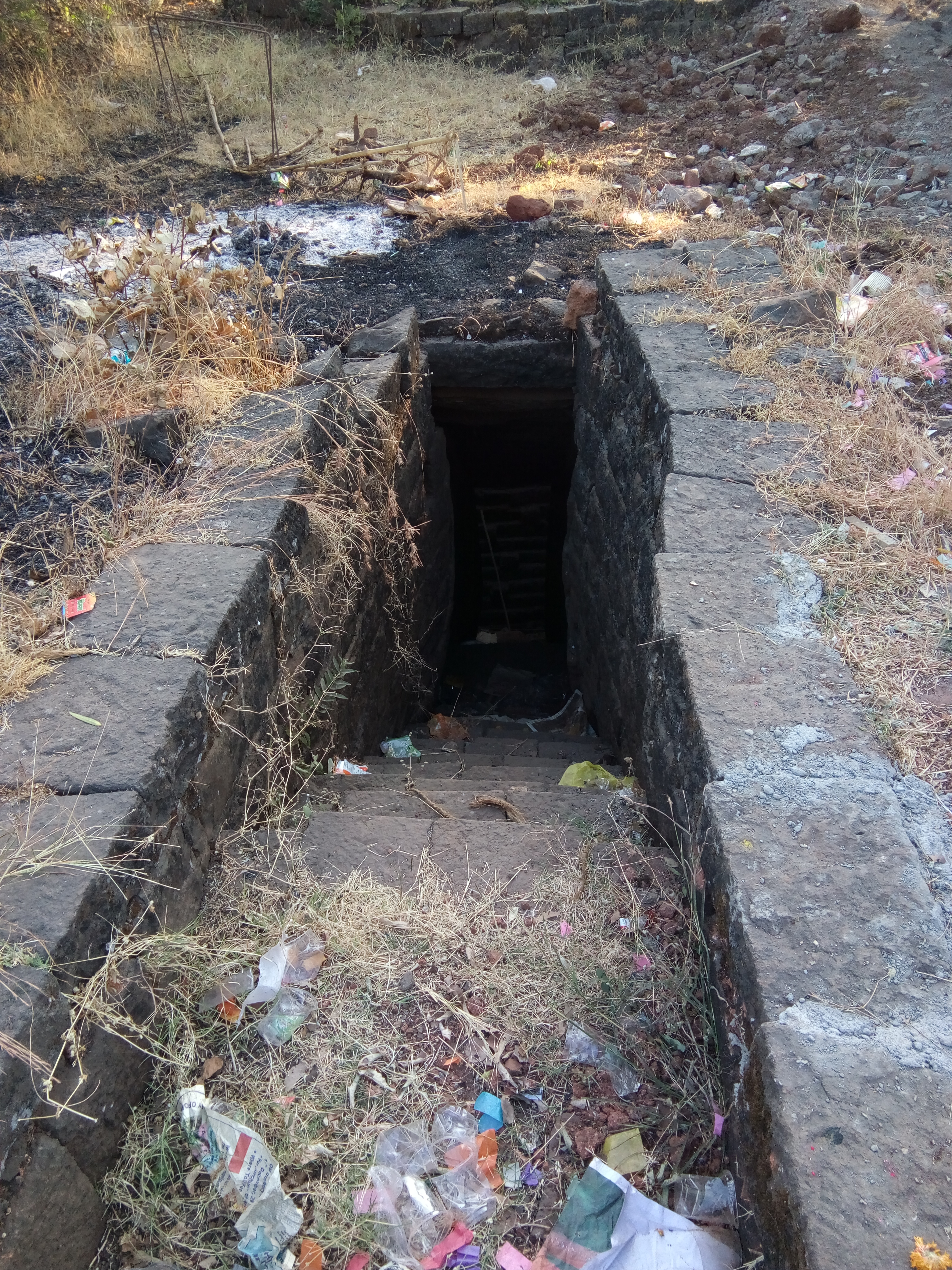 Old well in bad condition